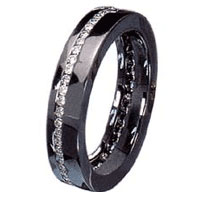 black gold